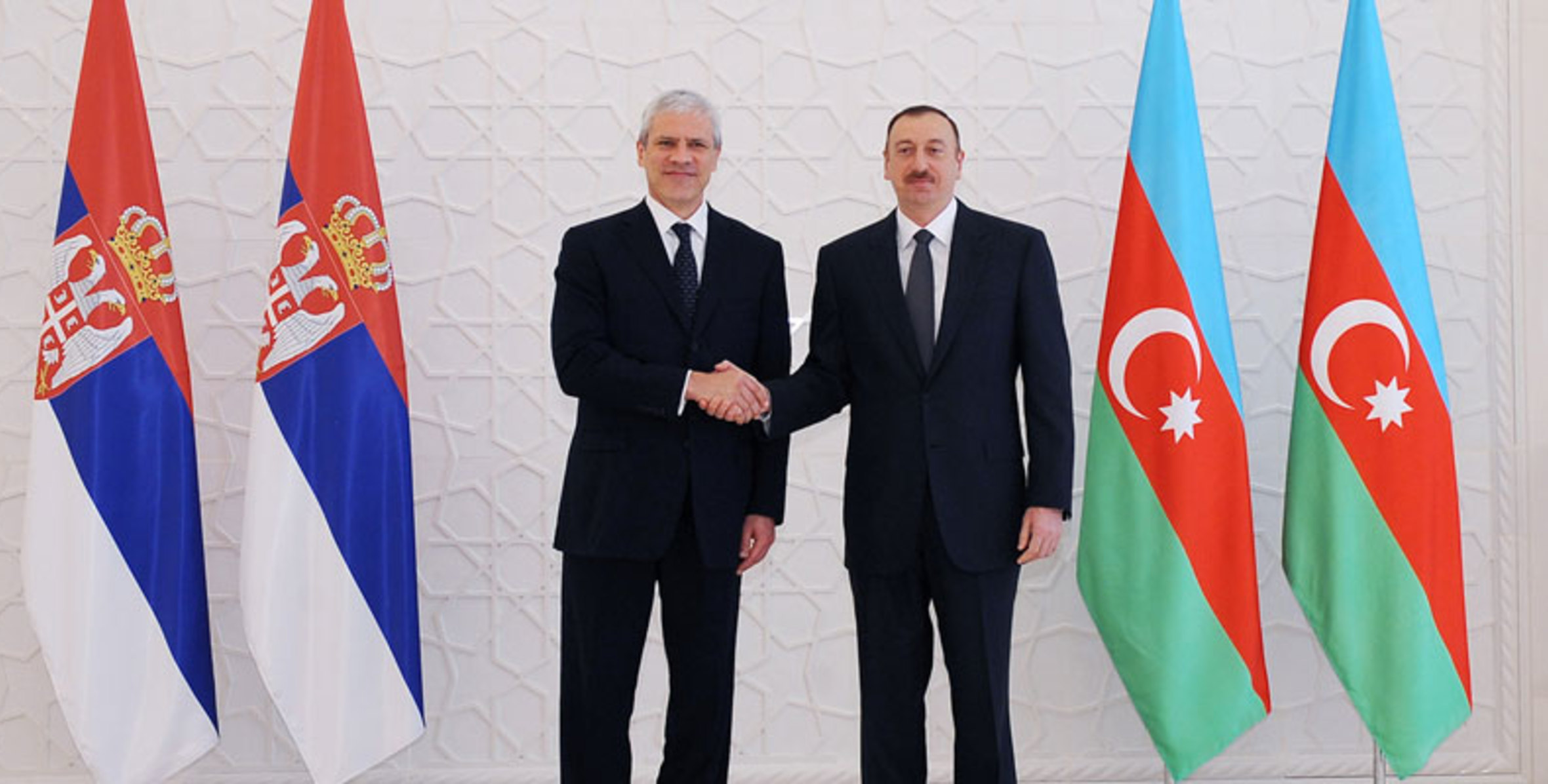 Ilham Aliyev held a meeting in private with Serbian President Boris Tadic